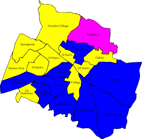 A map of the results of the 2008 Cheltenham Council election. Colour legend by wards won: Liberal Democrats Conservative party People Against Bureaucracy